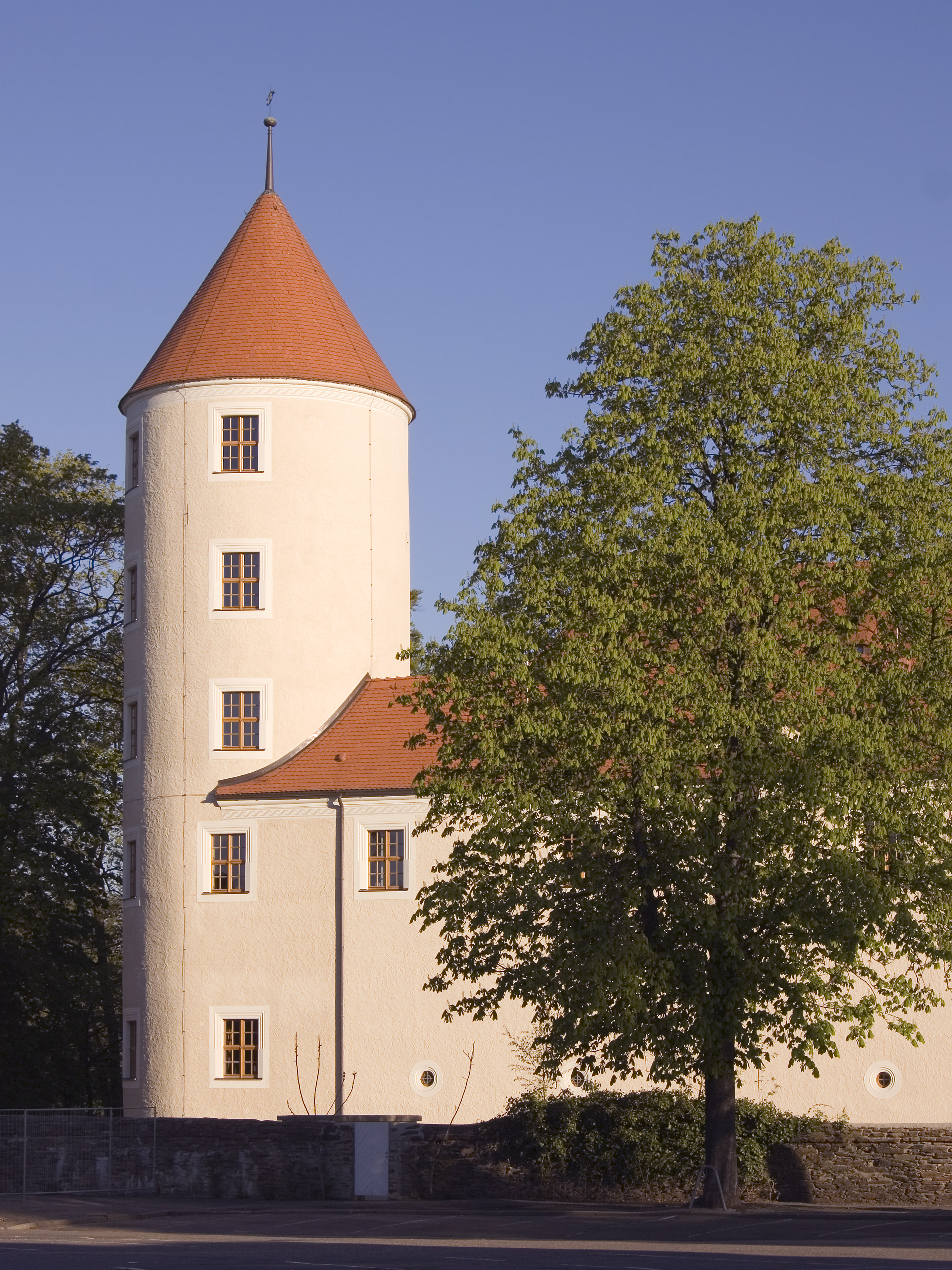 Schloss Freudenstein, castle in Freiberg, Saxony